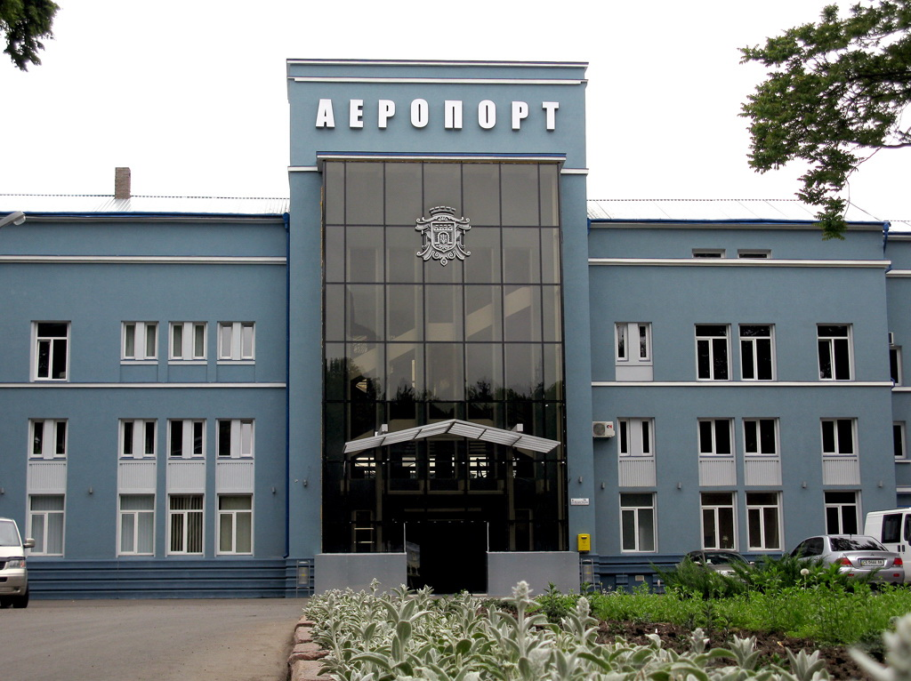 Airport terminal Chernivtsi, Ukraine (UKLN)